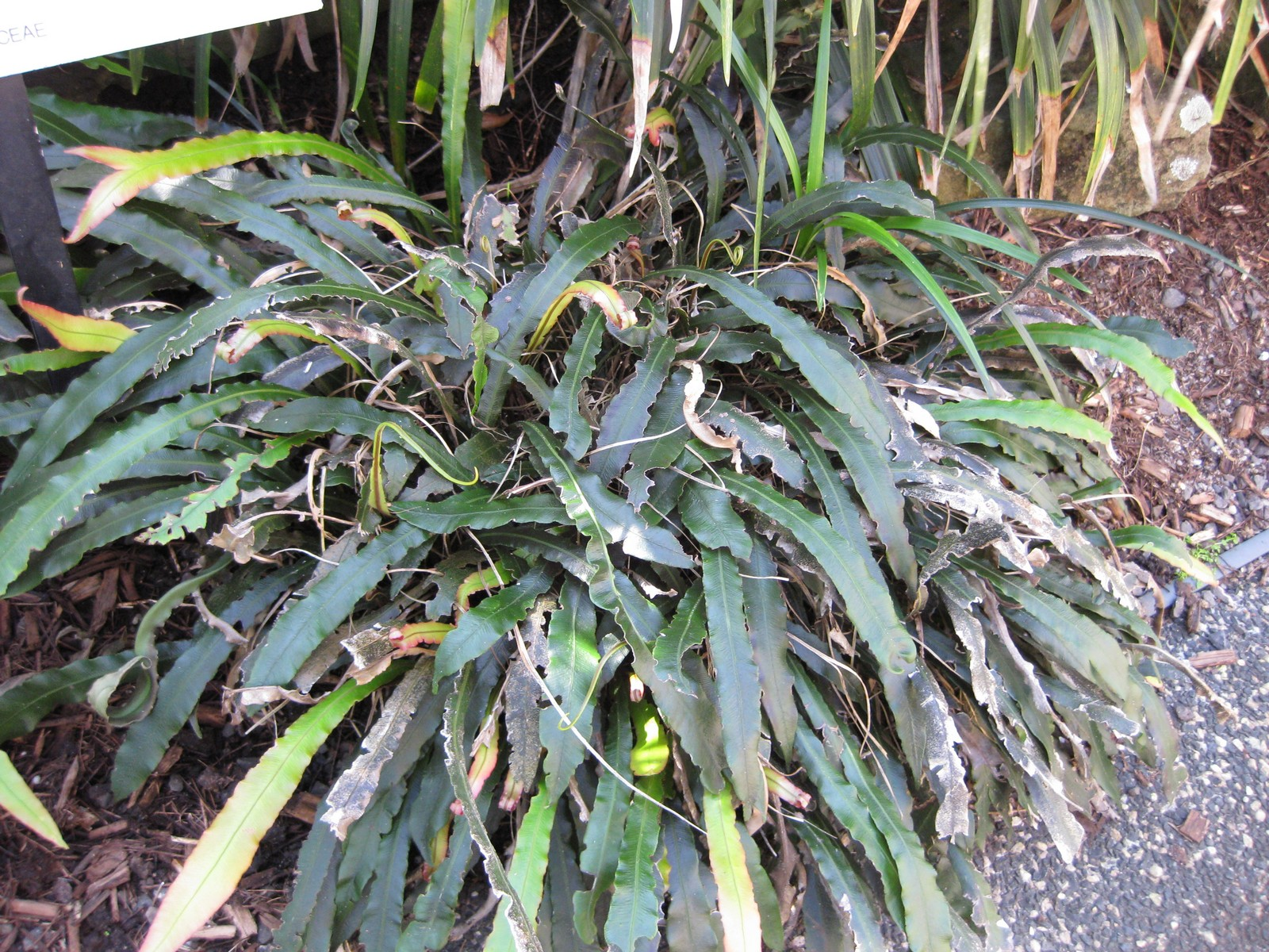 Photographed at the Royal Botanic Gardens Sydney (Australia) in December